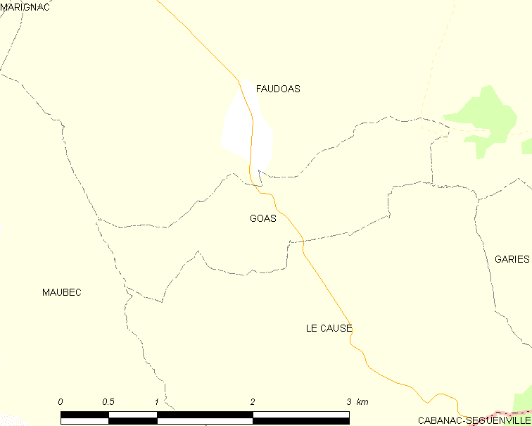 Map of French municipality Goas